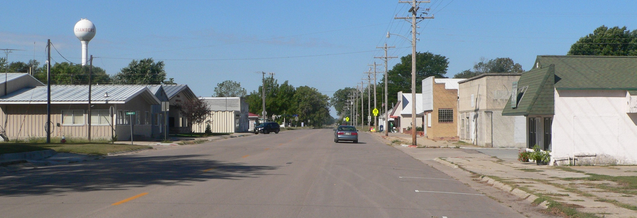 Downtown Chambers, Nebraska. Camera is facing westward down Nebraska Highway 95.